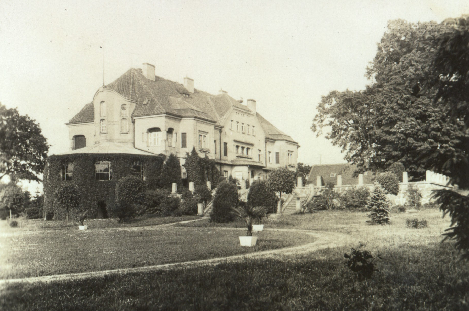 Castle of Dominium Laukischken in Saranskoe (before 1945 Laukischken)